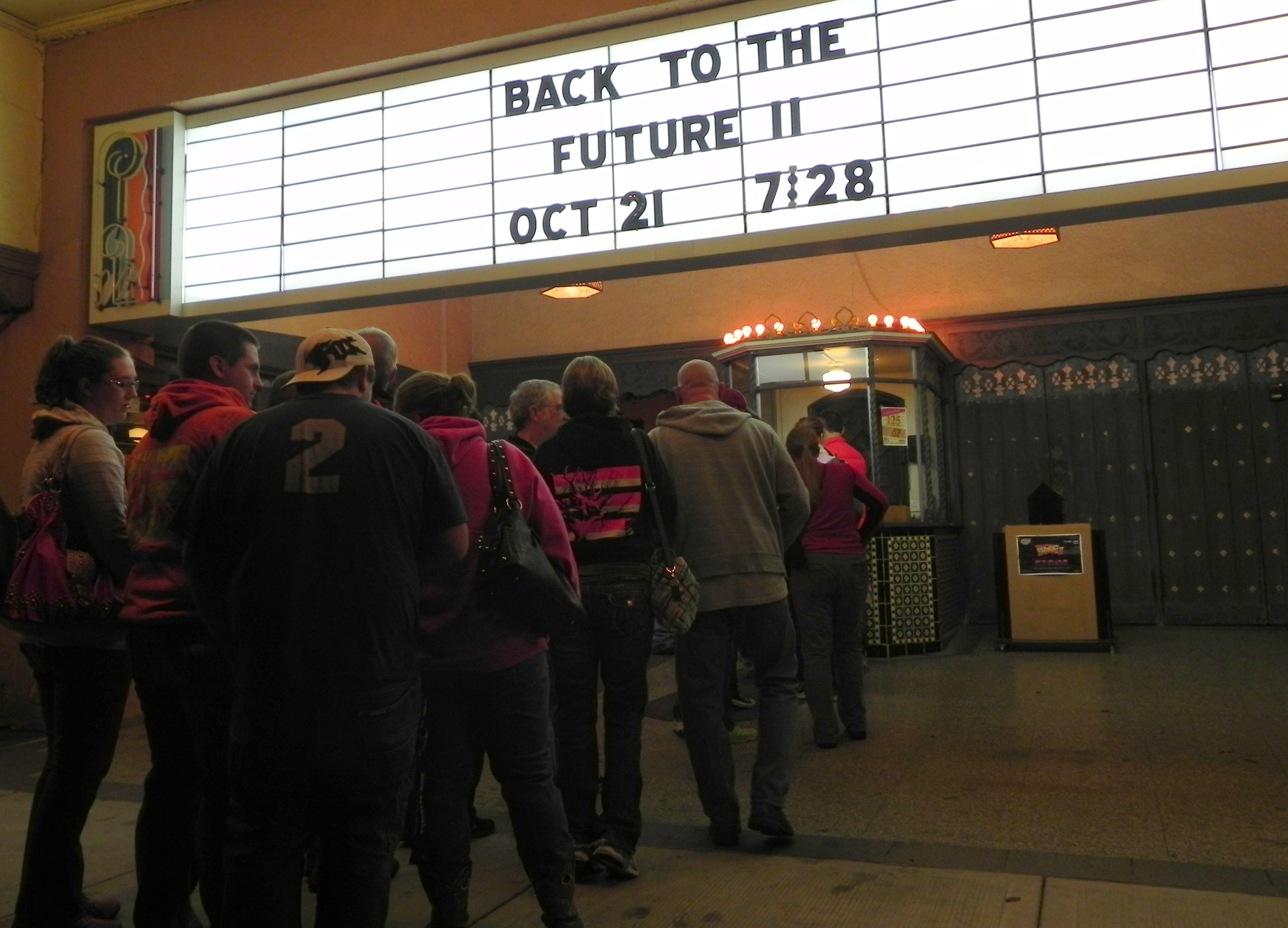 October 21, 2105 288 people in attendance